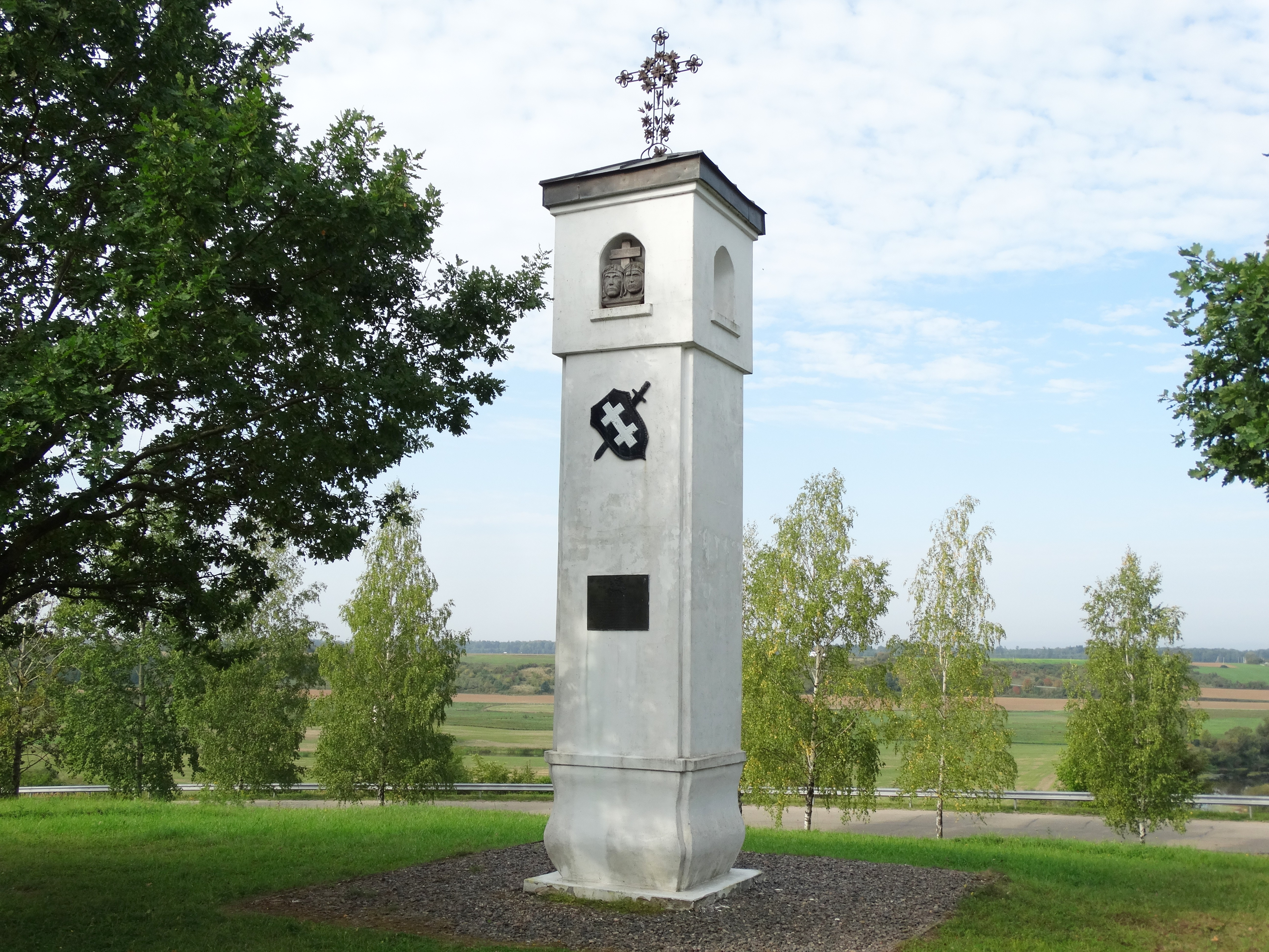 Monument to pilots Darius and Girėnas who crossed the Atlantic Ocean in 1933. Babtai, Lithuania